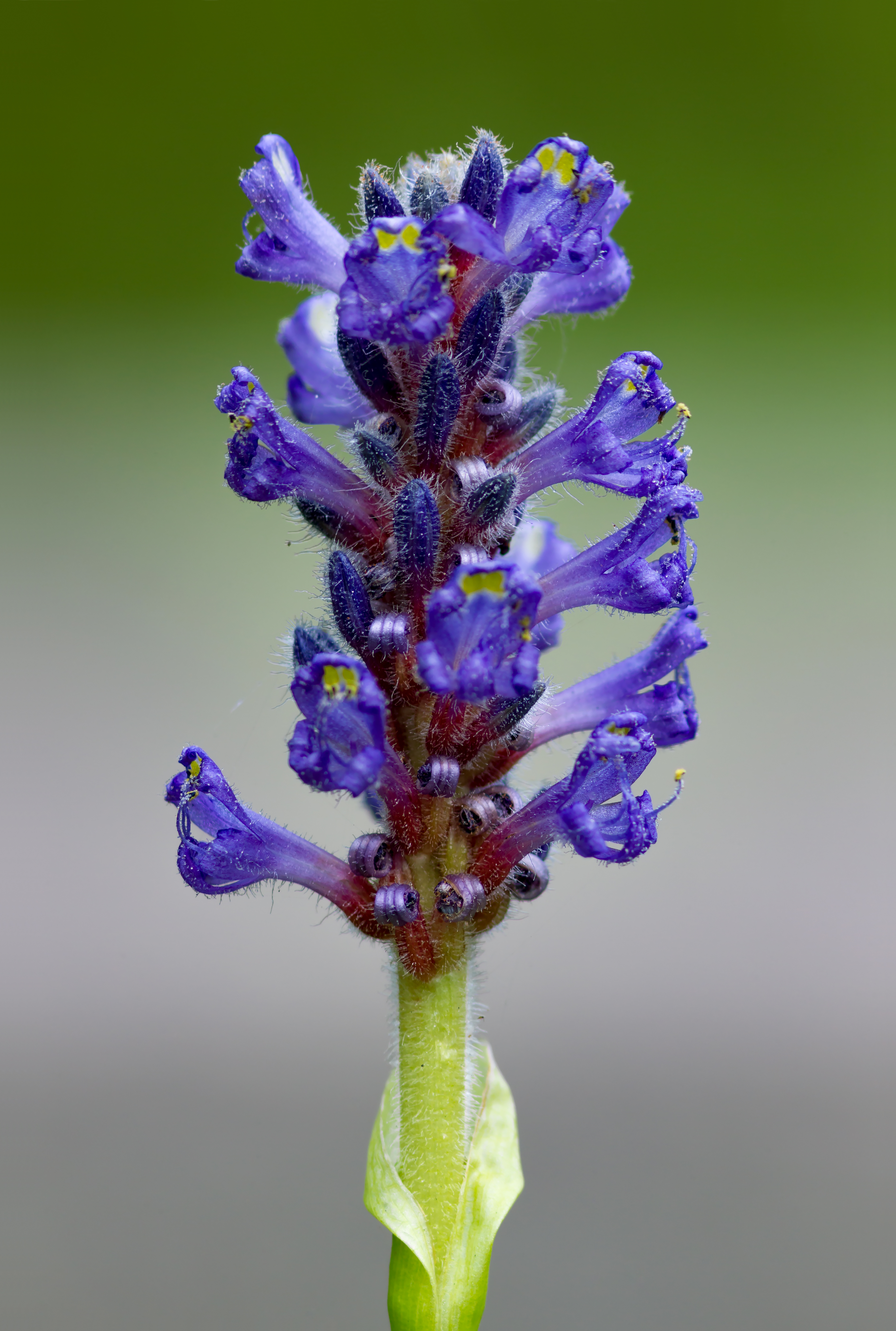 Pickerel weed, Nagai Park, Osaka.